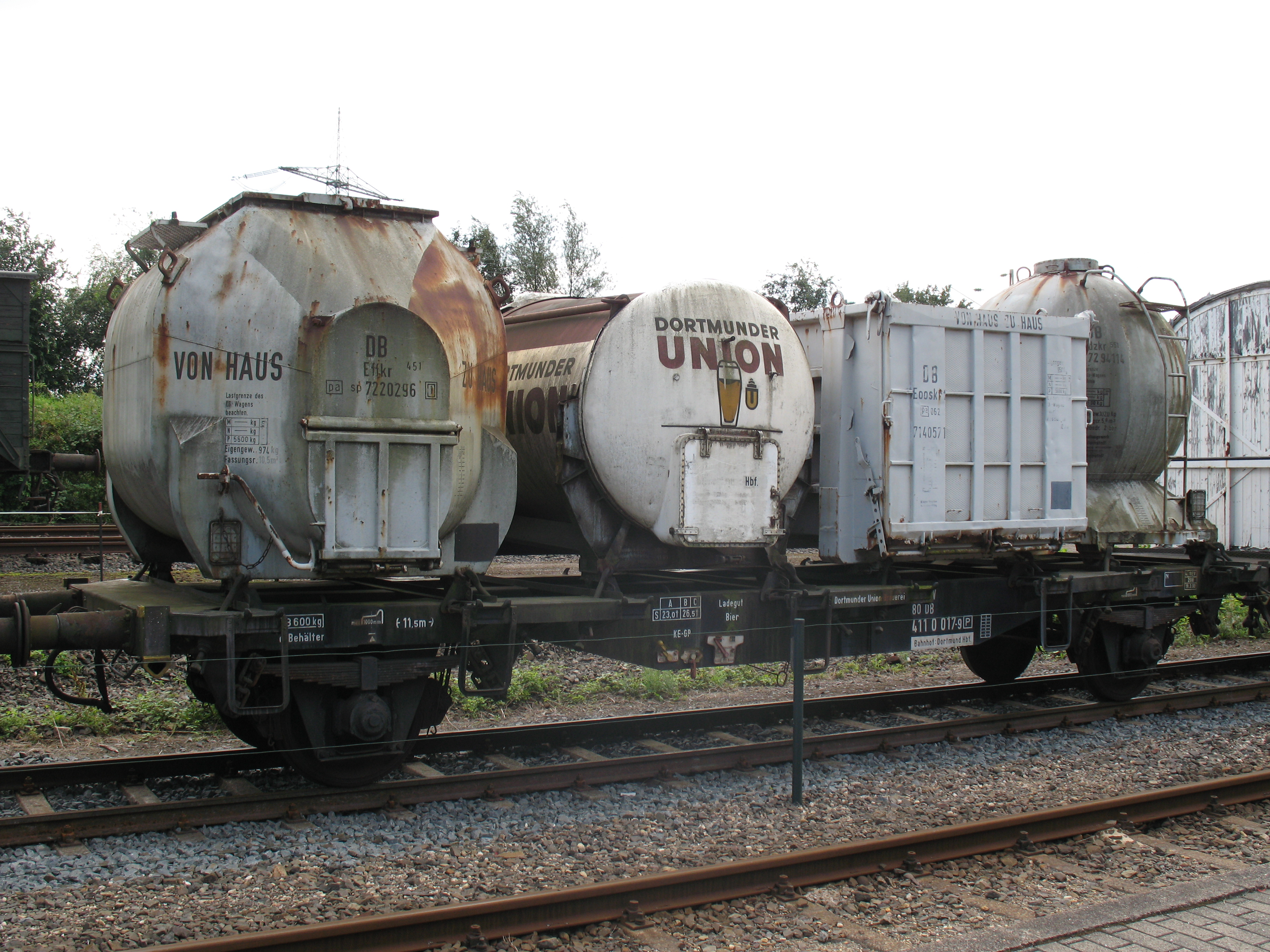 Goods wagon; Railroad Museum Bochum-Dahlhausen